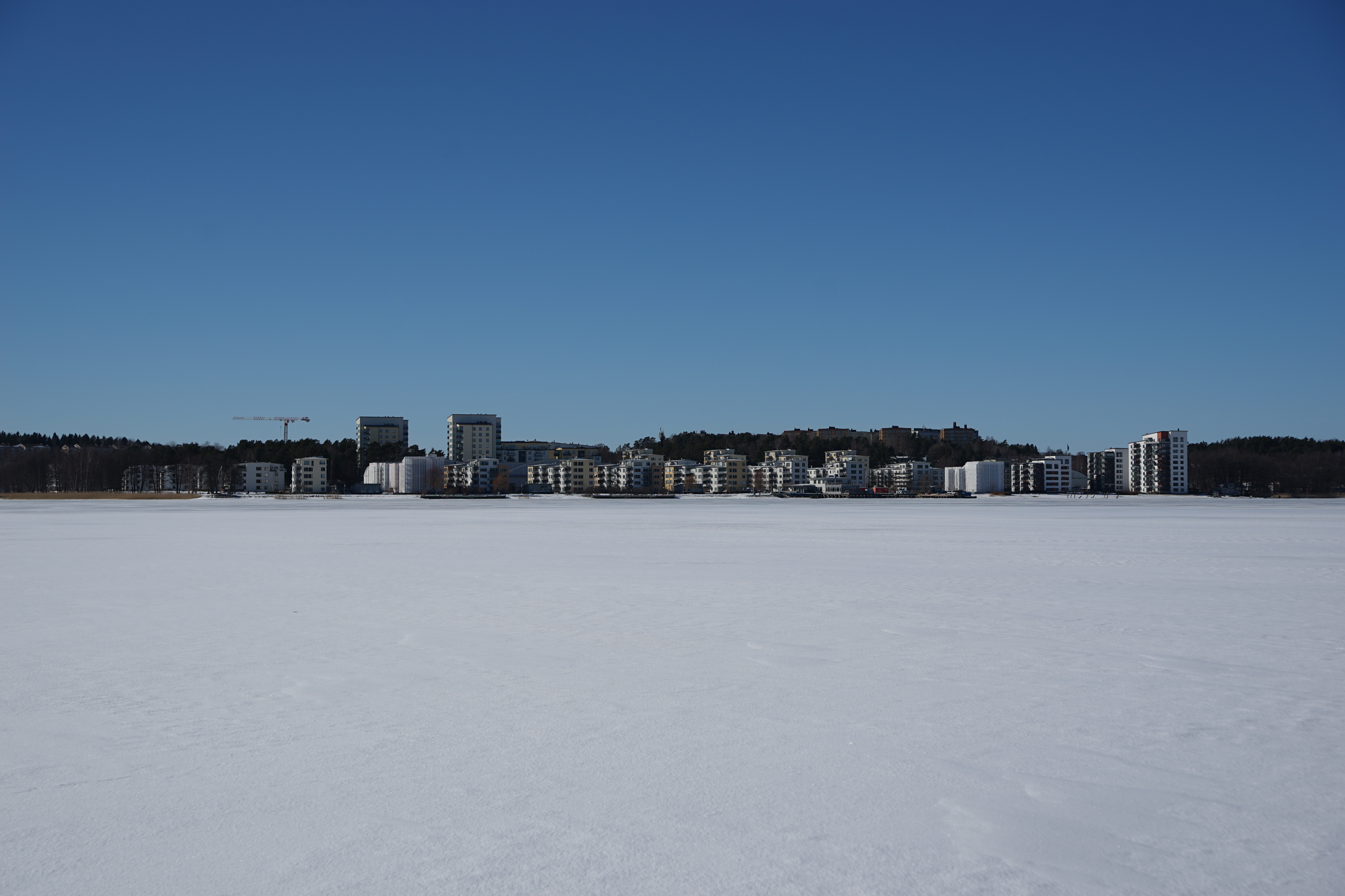 Hägernäs strand, 2018, viewed from the ice.